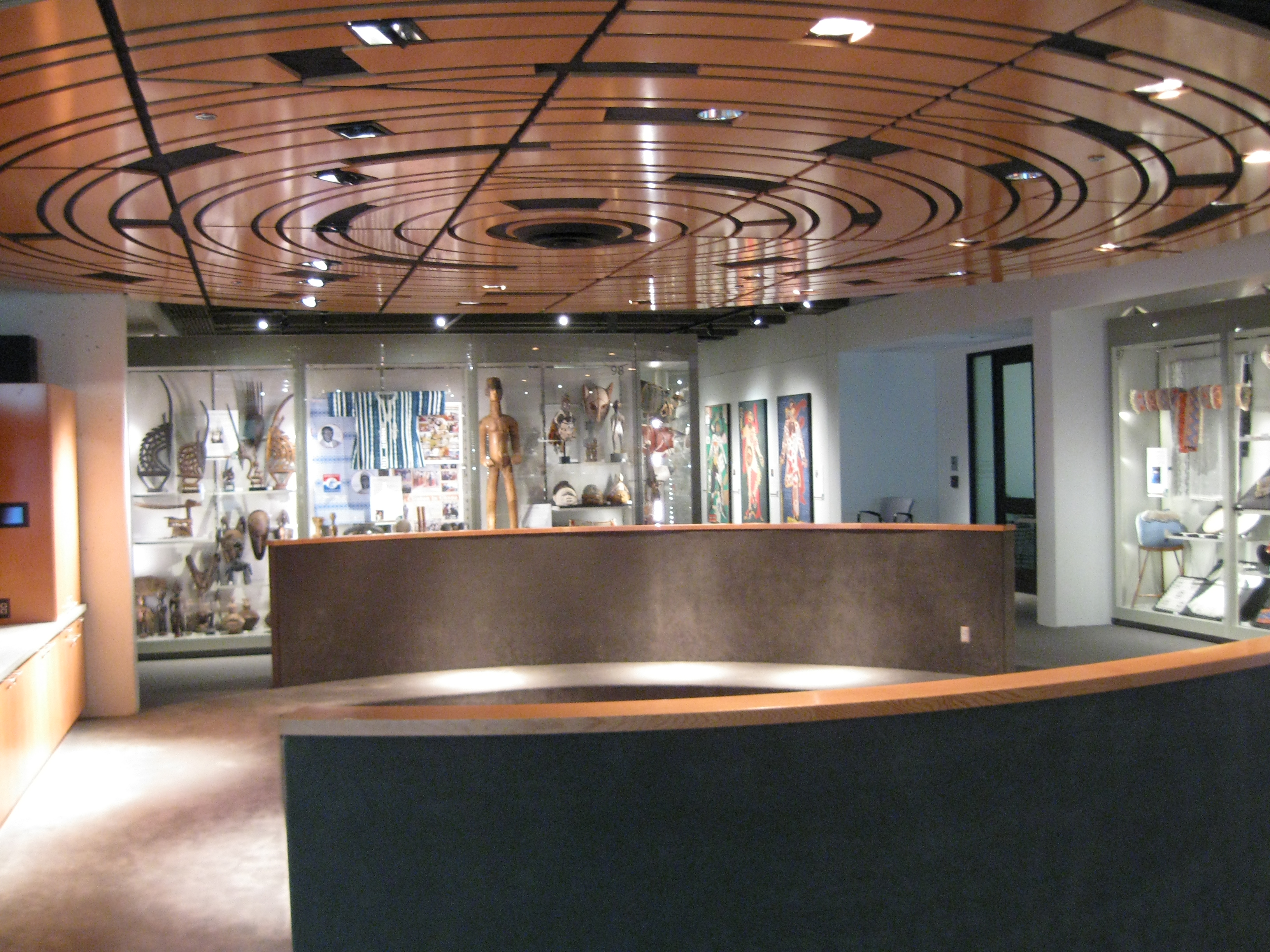 The Presentation Circle in the UBC Museum of Anthropology in Vancouver, Canada, can accommodate up to 40 participants for multimedia presentations, discussions, performances and workshops.